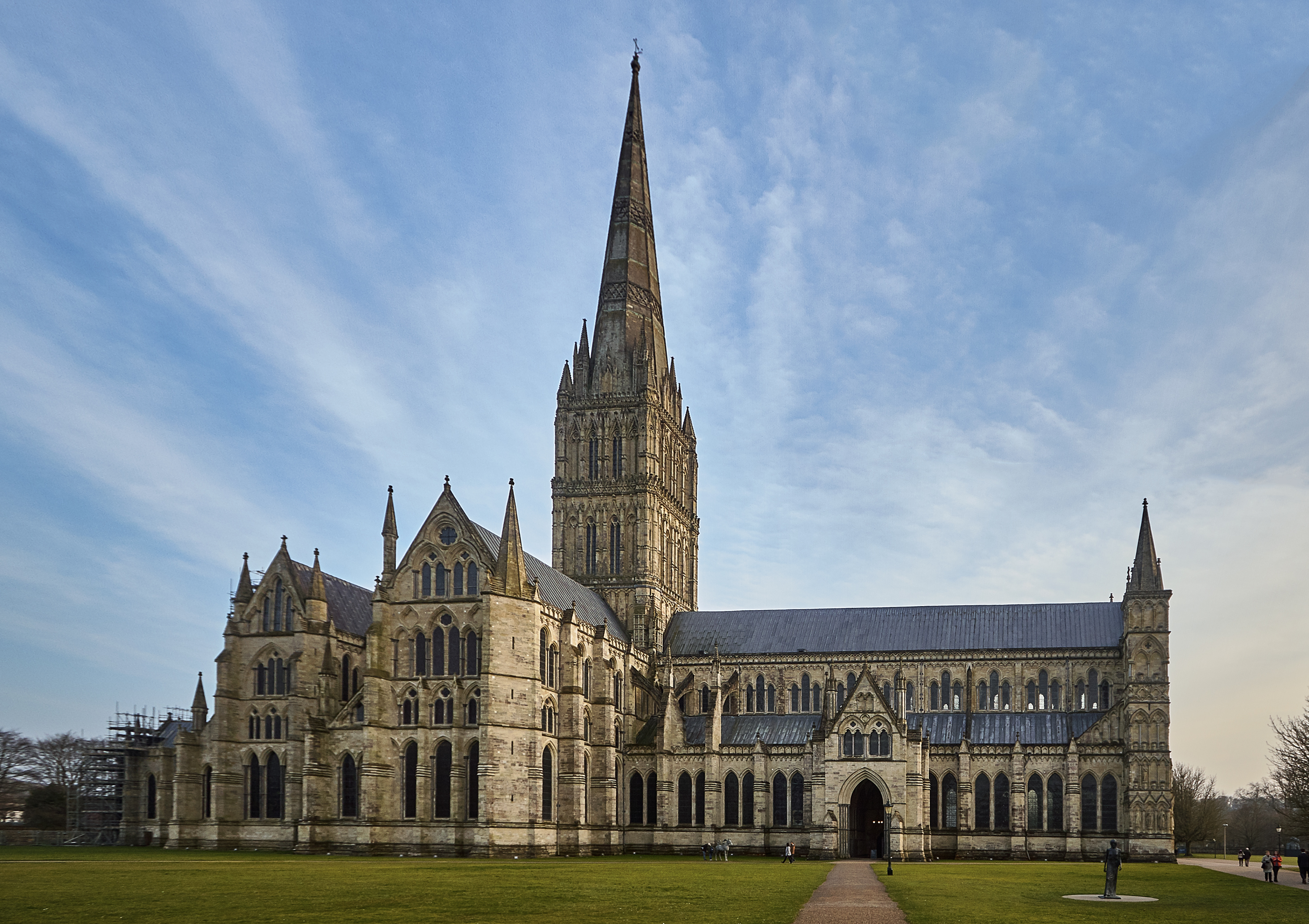 Salisbury Cathedral